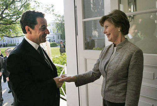 Laura Bush welcomes President Nicolas Sarkozy to the President's private quarters at Kempinski Grand Hotel in Heiligendamm, Germany, where the two leaders discussed issues regarding bilateral relations between the U.S. and France, as well as with the U.S. and Europe.